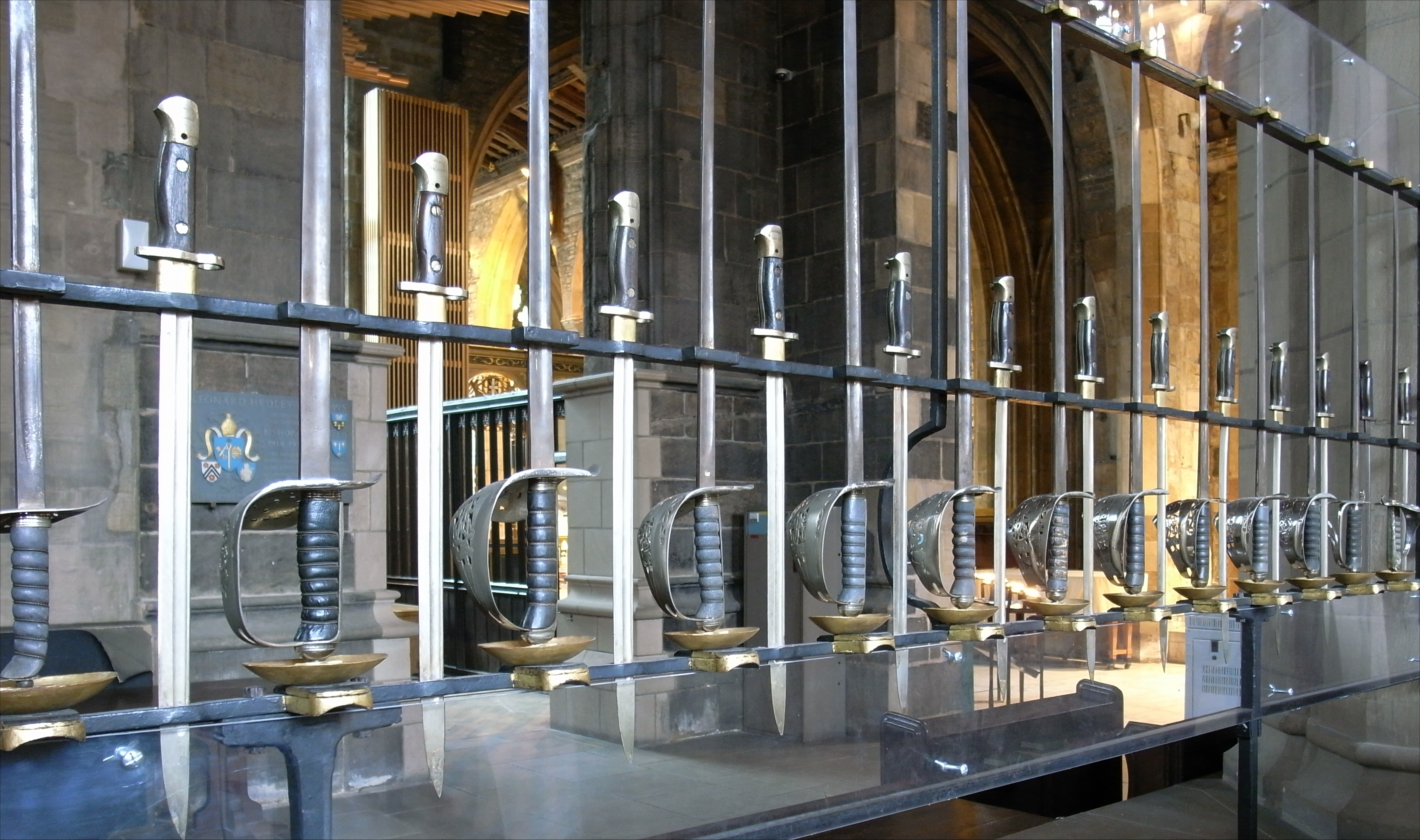 Part of the screen made of bayonets and swords from the York and Lancaster Regiment in the chapel of St George in the (Anglican) Sheffield Cathedral, England.